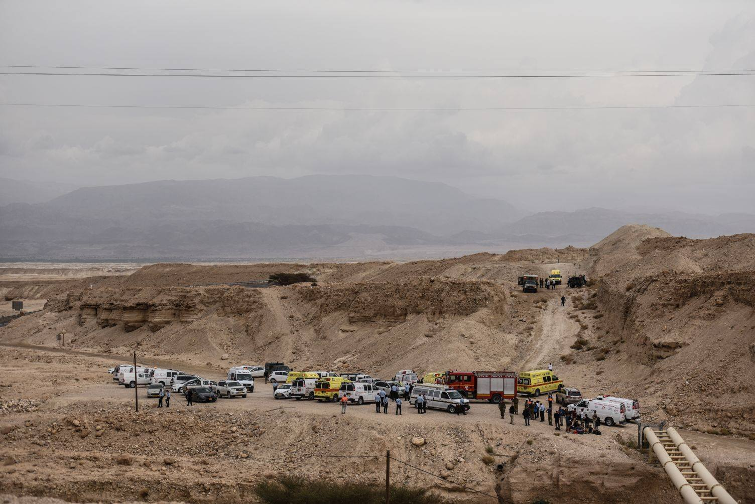 Ambulances and First Responders at the scene of Zafit Stream disaster